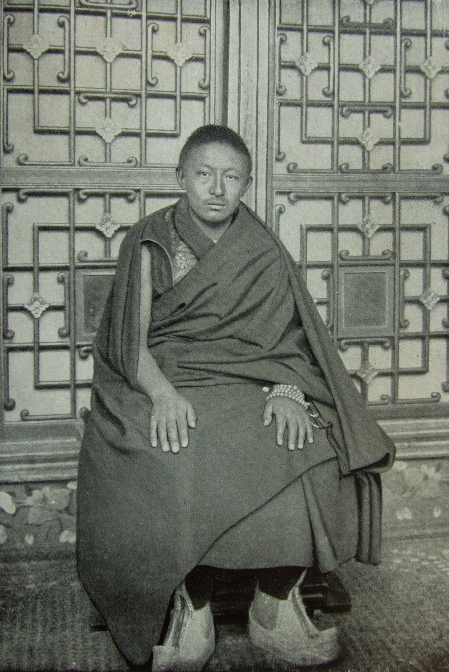 9th Panchen Lama (Taschi-Lama), Thubten Choekyi Nyima Foto: Sven Hedin, Transhimalaja